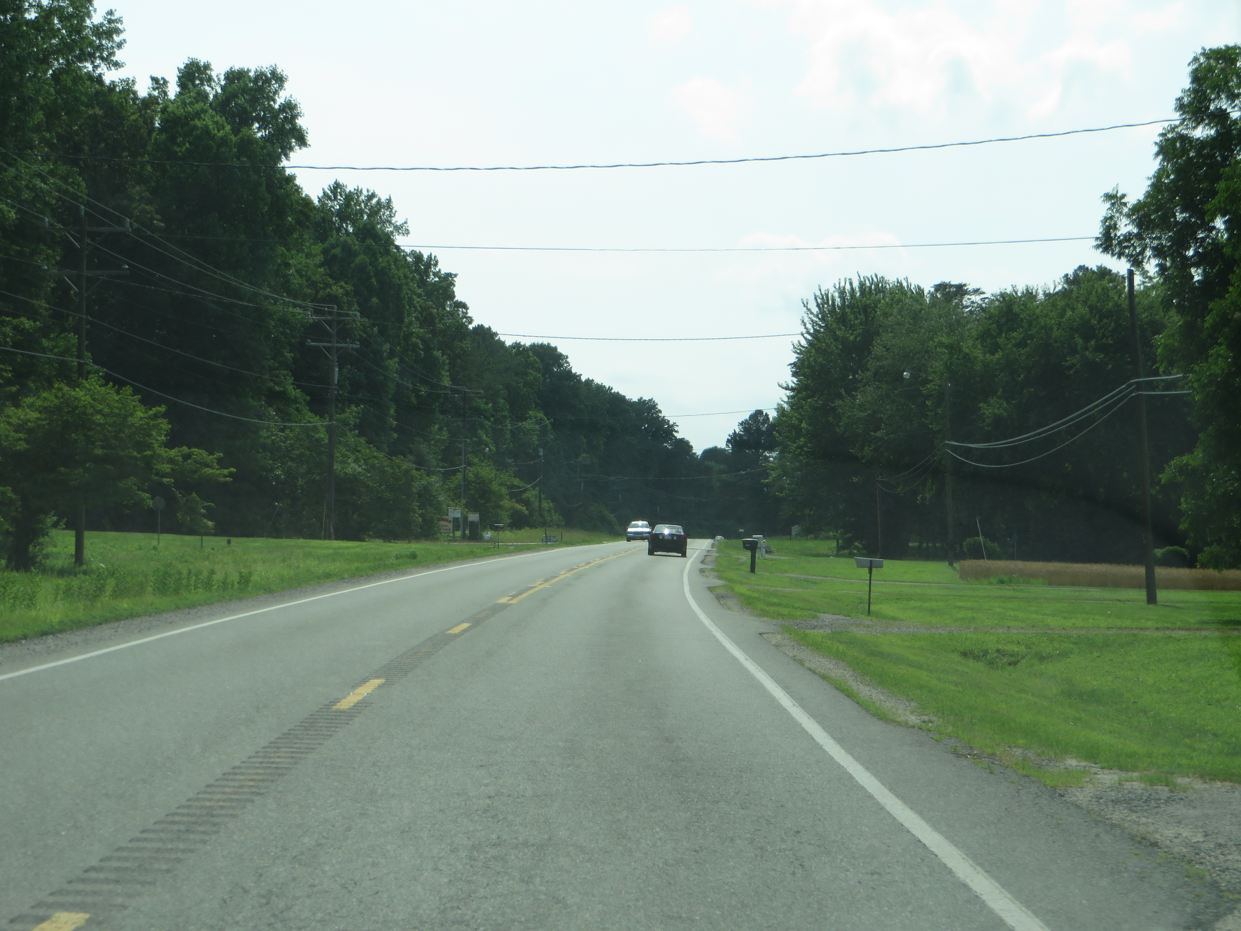 U.S. Route 360 (US 360) is a spur of US 60 in the U.S. state of Virginia. The U.S. Highway runs 225.31 miles (362.60 km) from US 58 Business, Virginia State Route 293, and SR 360 in Danville east to SR 644 in Reedville. US 360 connects Danville, South Boston, and Keysville in Southside Virginia with the state capital of Richmond. The U.S. Highway also connects Richmond with Tappahannock on the Middle Peninsula and the eastern Northern Neck, where the highway serves as the primary route through Northumberland County. US 360 is a four-lane divided highway for almost all of its length.